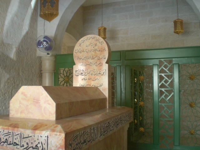 On the way to Pella, in the Jordan Valley. A relatively new mosque housing the tomb of Abu Ubaidah ibn al-Jarrah.